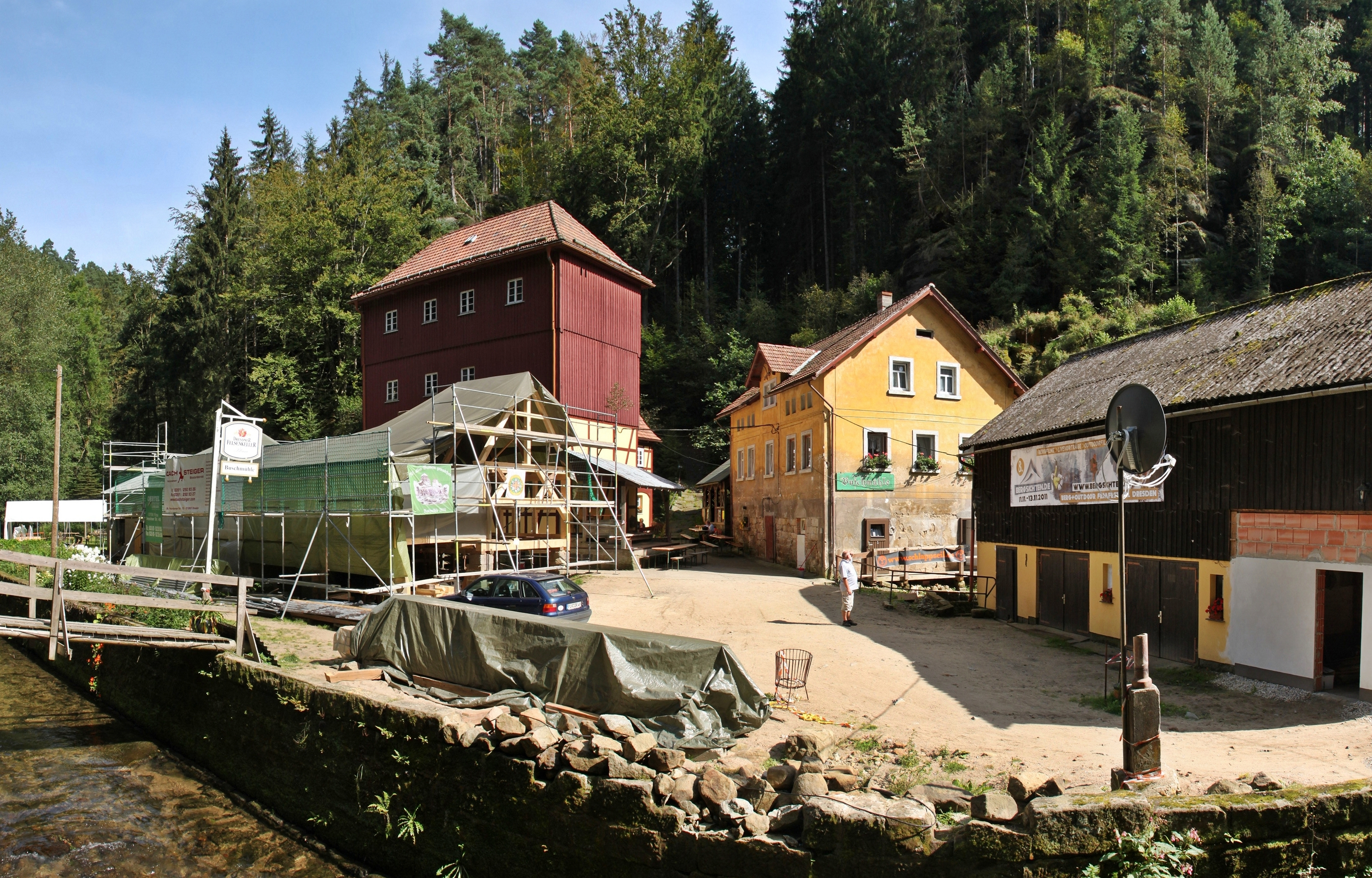 The Buschmühle, a watermill on the river Kirnitzsch in the Saxon Switzerland.